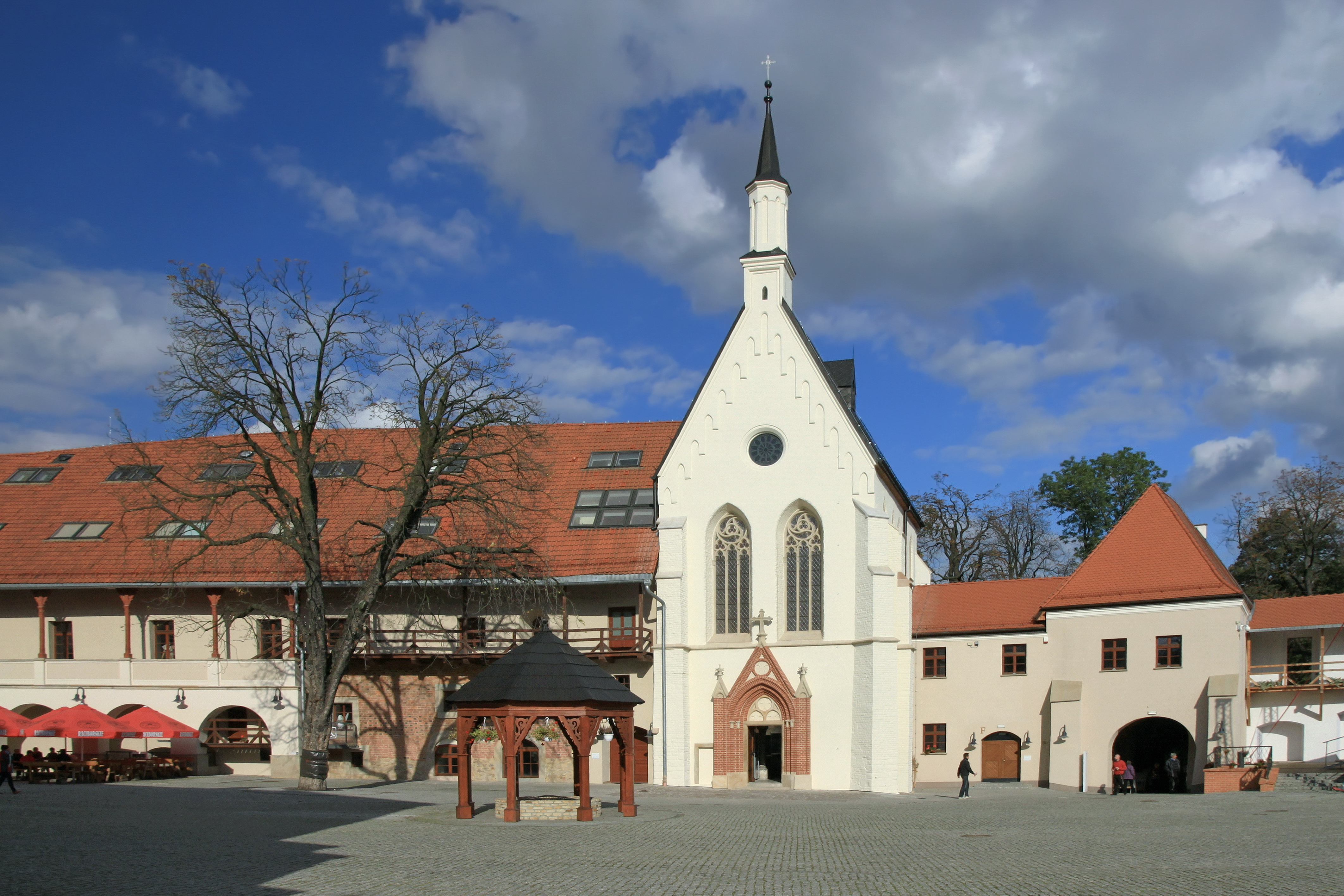 Racibórz, castle, complex: castle, chapel and gatehouse